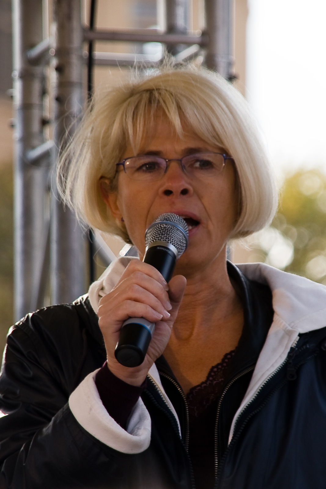 Angelika Gramkow on a demonstration in front of the local parliament of Mecklenburg-Vorpommern in Schwerin